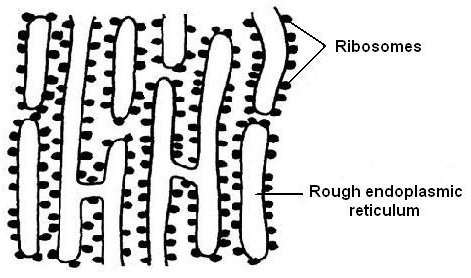 Diagram of rough endoplasmic reticulum by Ruth Lawson, Otago Polytechnic.